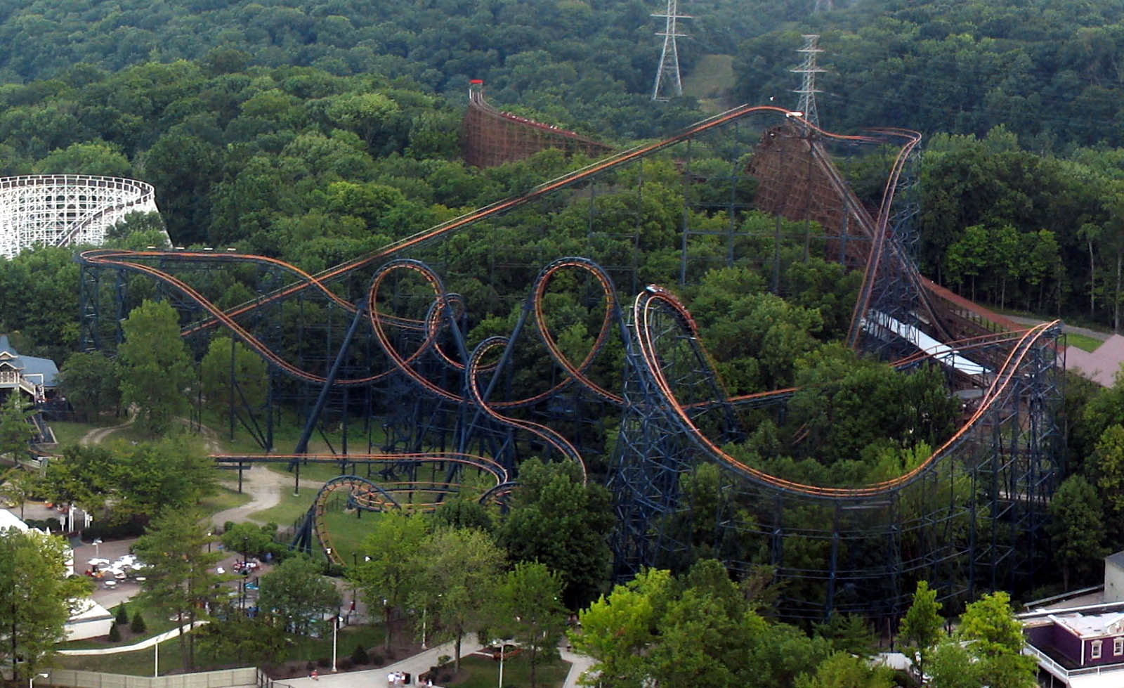 Aerial view of Vortex (roller coaster) at Kings Island. Taken in August 2007 from the park's Eiffel Tower